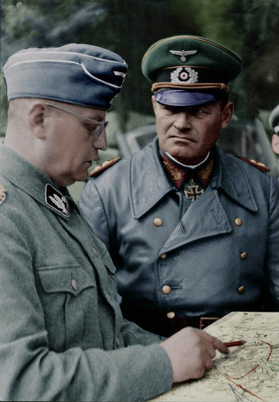 Erich Hoepner. Colored photograph.